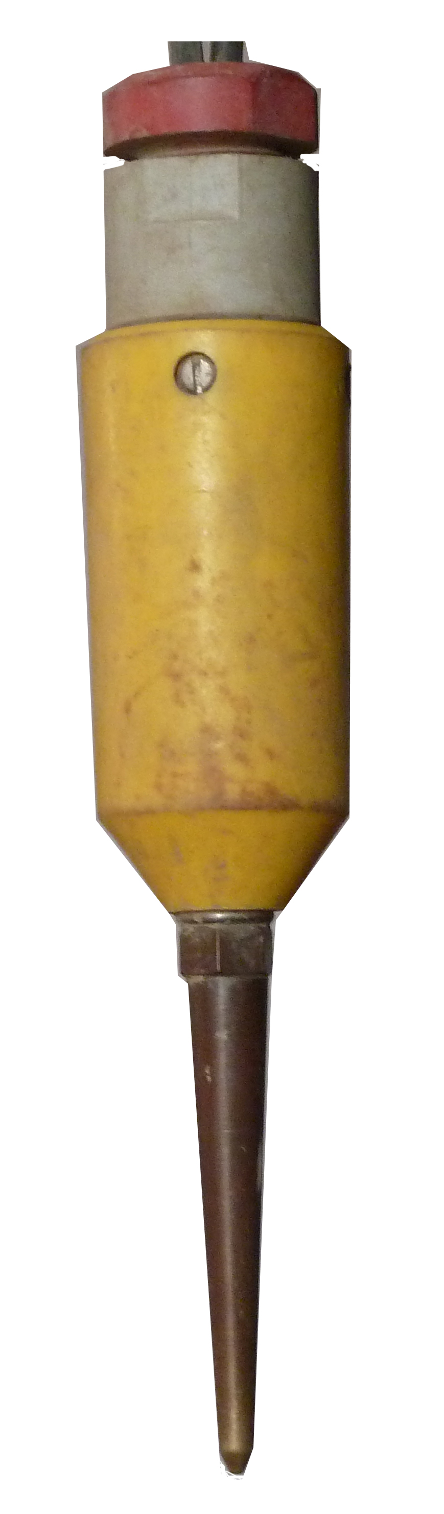 This image is of a geophone, used to detect vibrations, specifically in the earth. It is specifically designed for It is made by ION. The model name is SM-24. Bandwidth 10Hz to 240Hz. Sensitivity 28.8 V/m/s. Standard resistance 375Ω. It physical characteristics are as follows Diameter 25.4 mm (1 in); Height 32 mm (1.26 in); Weight 74 g (2.6 oz); Operating temperature range -40°C to +100°C (-40°F to +212°F)